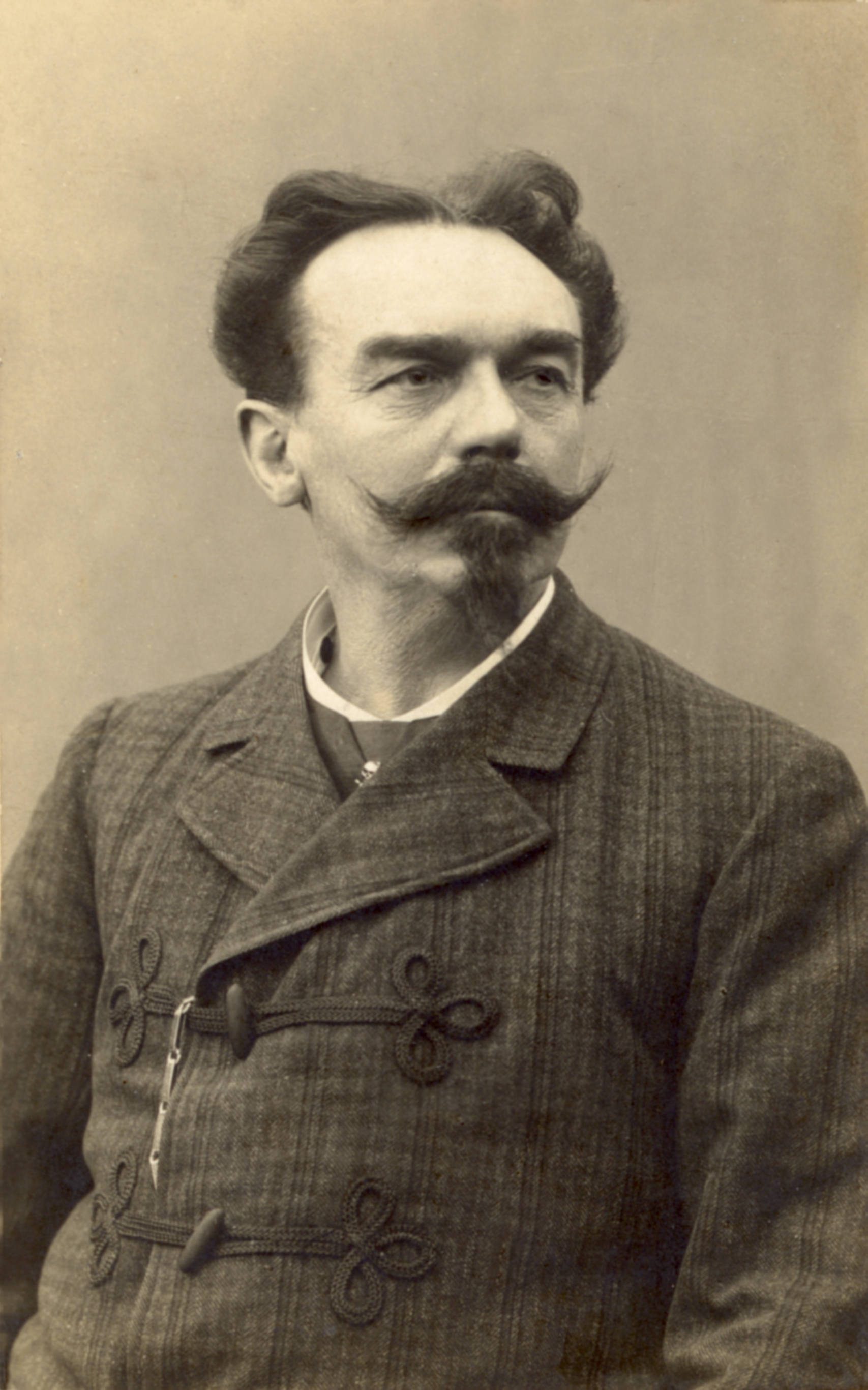 Dutch painter/photographer